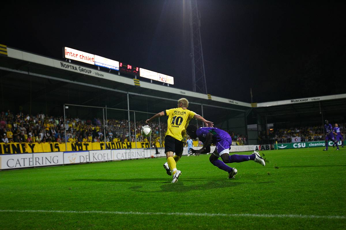 AUGUST 22, 2009 - Football : Keisuke Honda of VVV Venlo in action during the Eredivisie match between VVV Venlo and FC Groningen at the De Koel stadium on August 22, 2009 in Venlo, Netherlands. (Photo by Tsutomu Takasu)